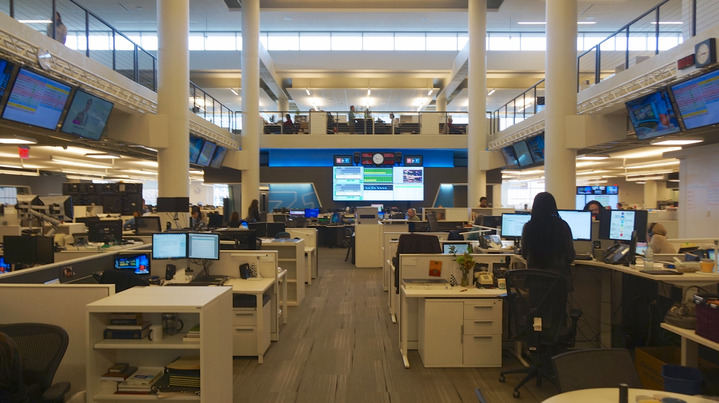 NPR Headquarters Building Tour 33202